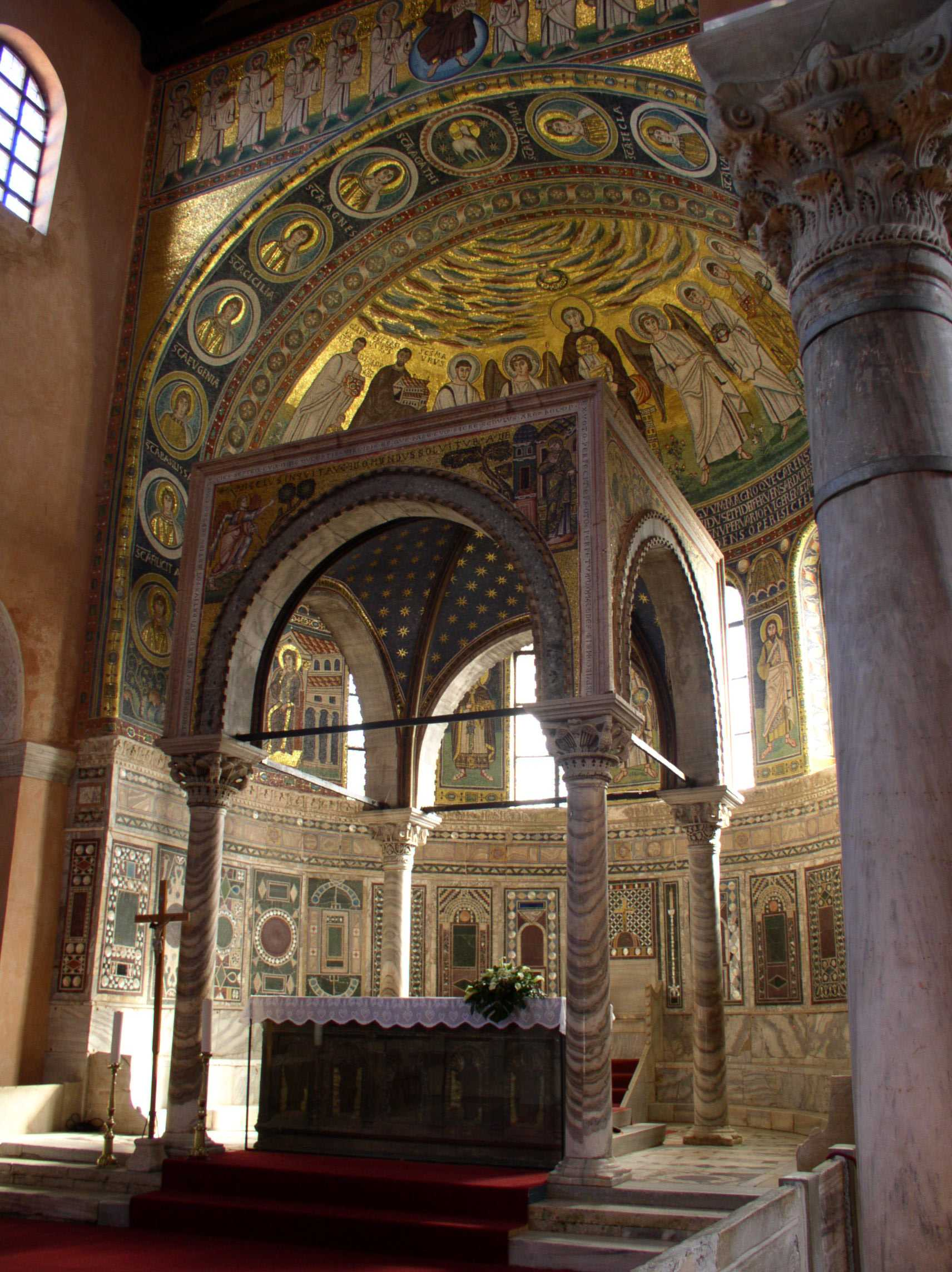 Interior view of the Euphrasius Basilica in Porec, Croatia